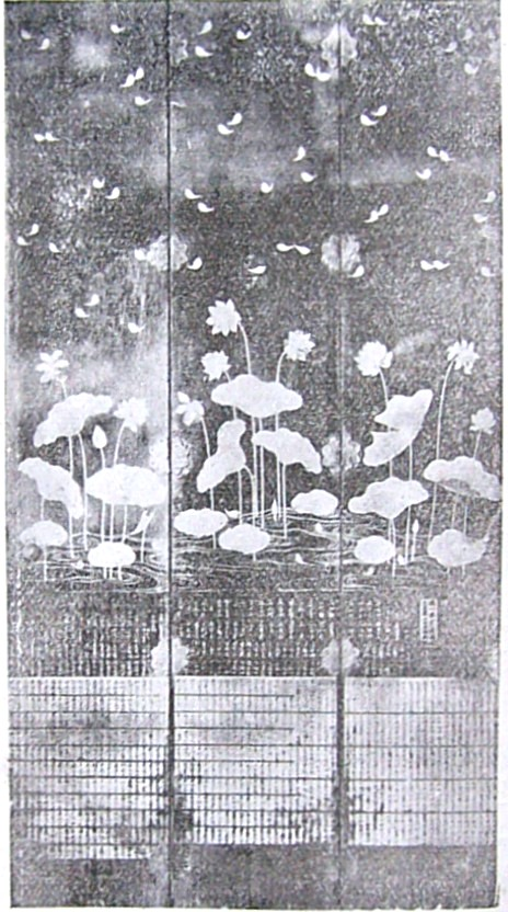 Door panels of Taima Mandala shrine(Case frame of the tapestry), Laquer on Wood, height about 340cm. ACE1242 Decorations of lotus lake (door panels), celestial musicians (underside of roof), butterflies, ducks, cranes, pheasants, wild geese (inside); hōsōge flowers on the ceiling.Main cinstruction of this shrine is thought to be produced 8-9th century, but totally restored in ACE1242. Doors and most surface decoration is attributed to Kamakura period.